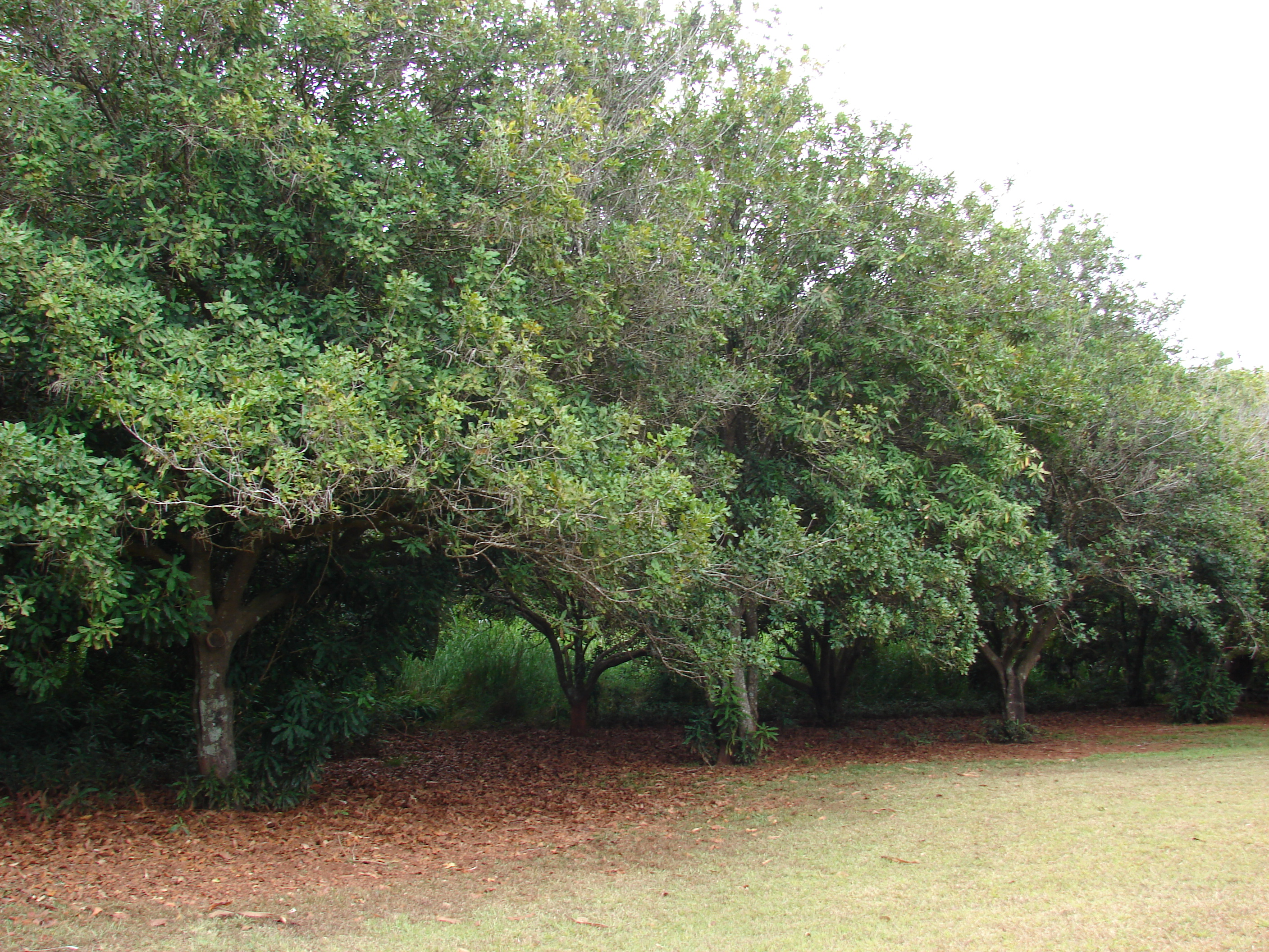 Macadamia integrifolia (row of trees). Location: Maui, MISC HQ Piiholo